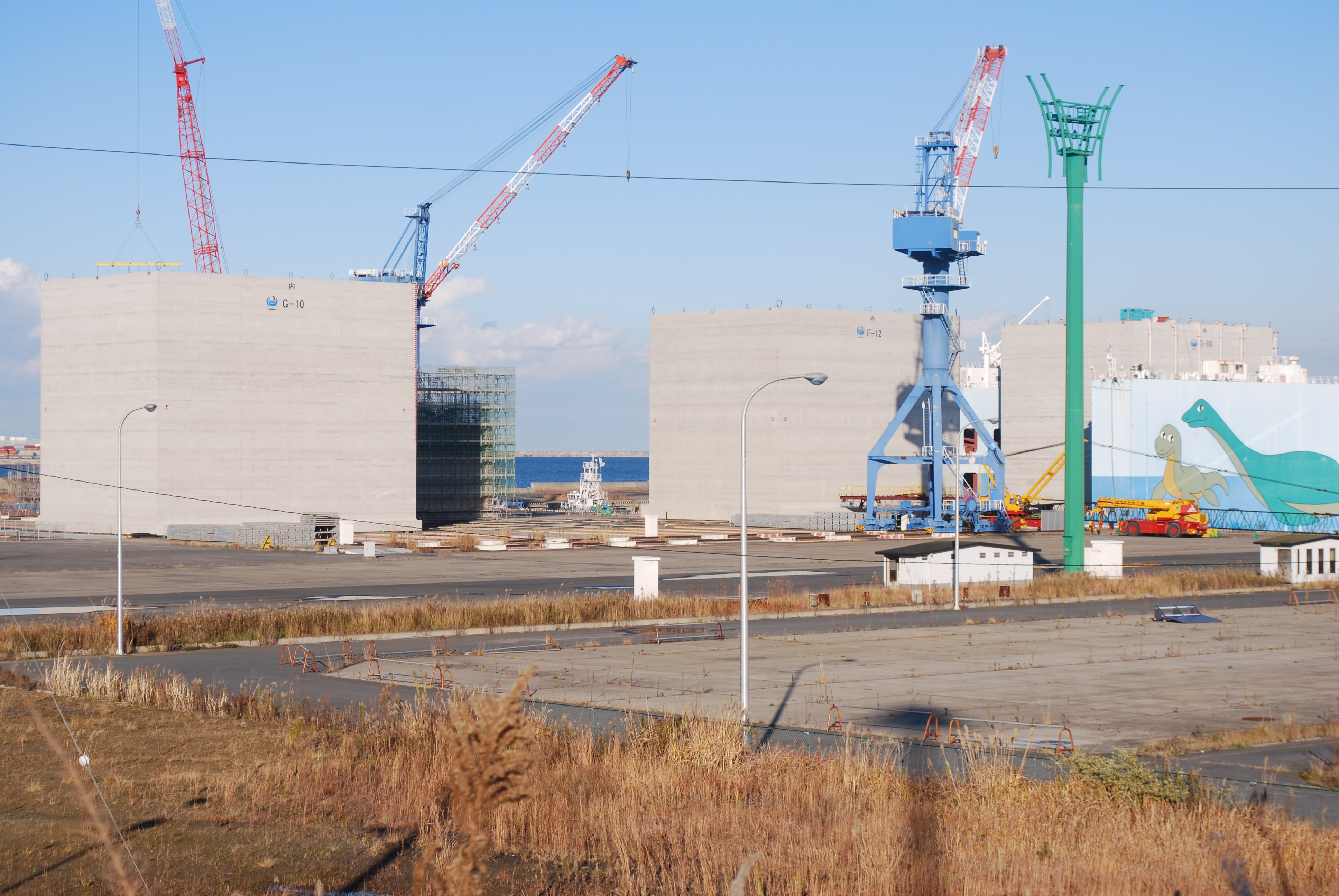 caisson(8000t),hitachi-naka port,hitatinaka-city,japan